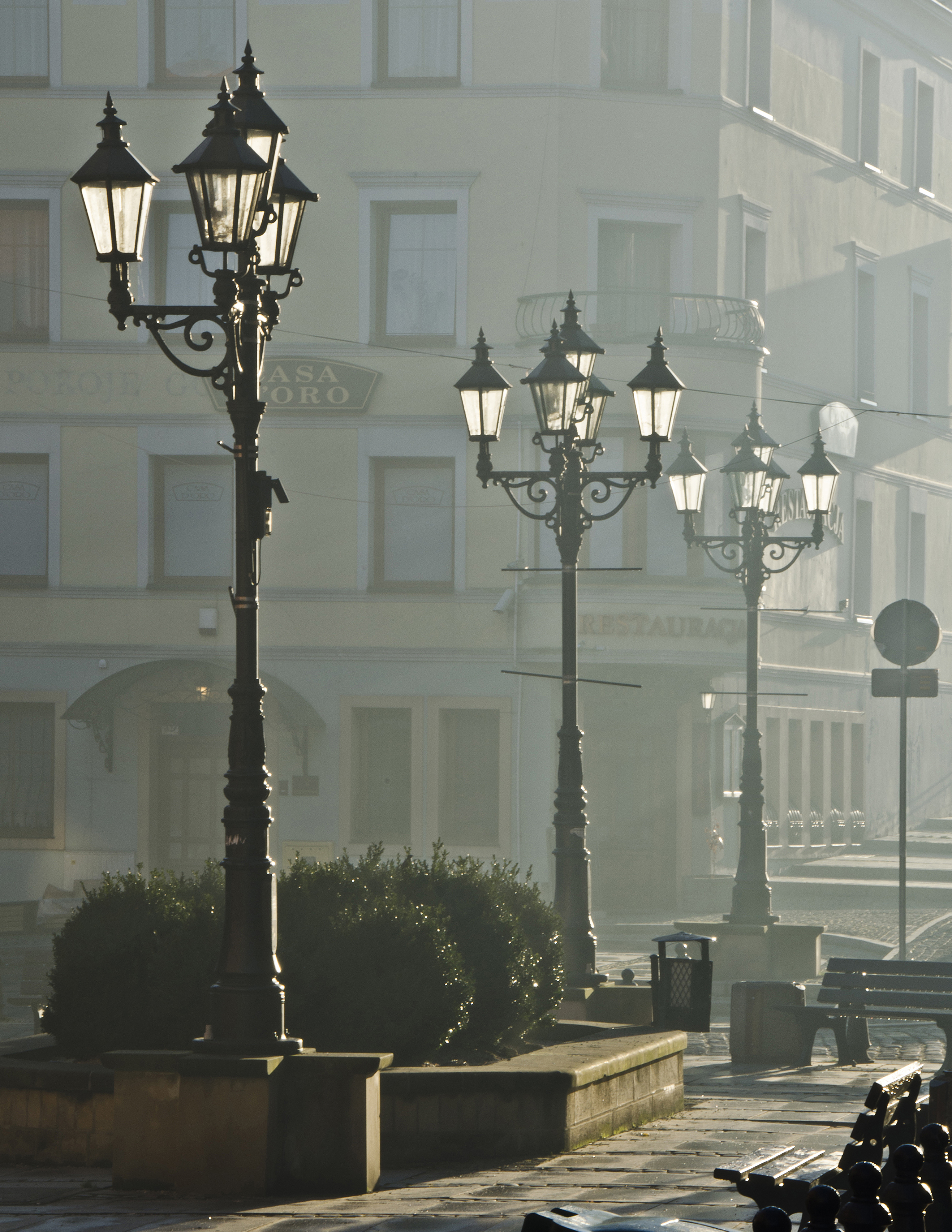 Street lights on the Grottgera Street in Kłodzko Ta fotografia przedstawia zabytek wpisany do rejestru zabytków pod numerem ID 592676